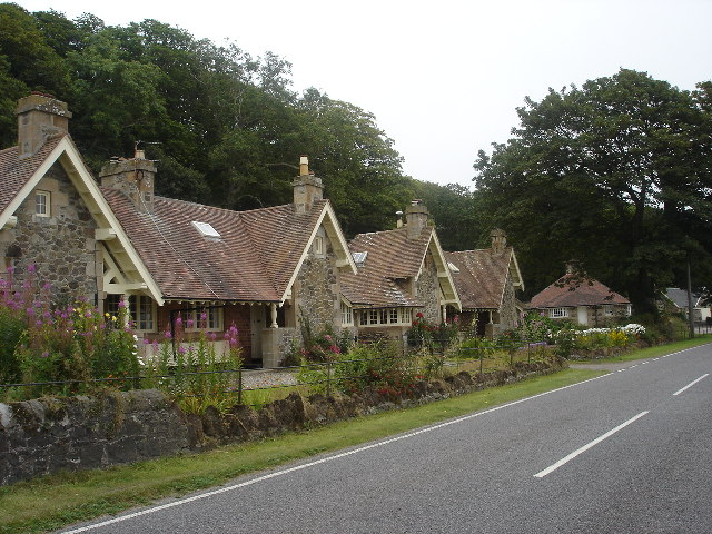 Estate Cottages Killean, Kintyre. Beautiful houses on coast road just south of Tayinloan